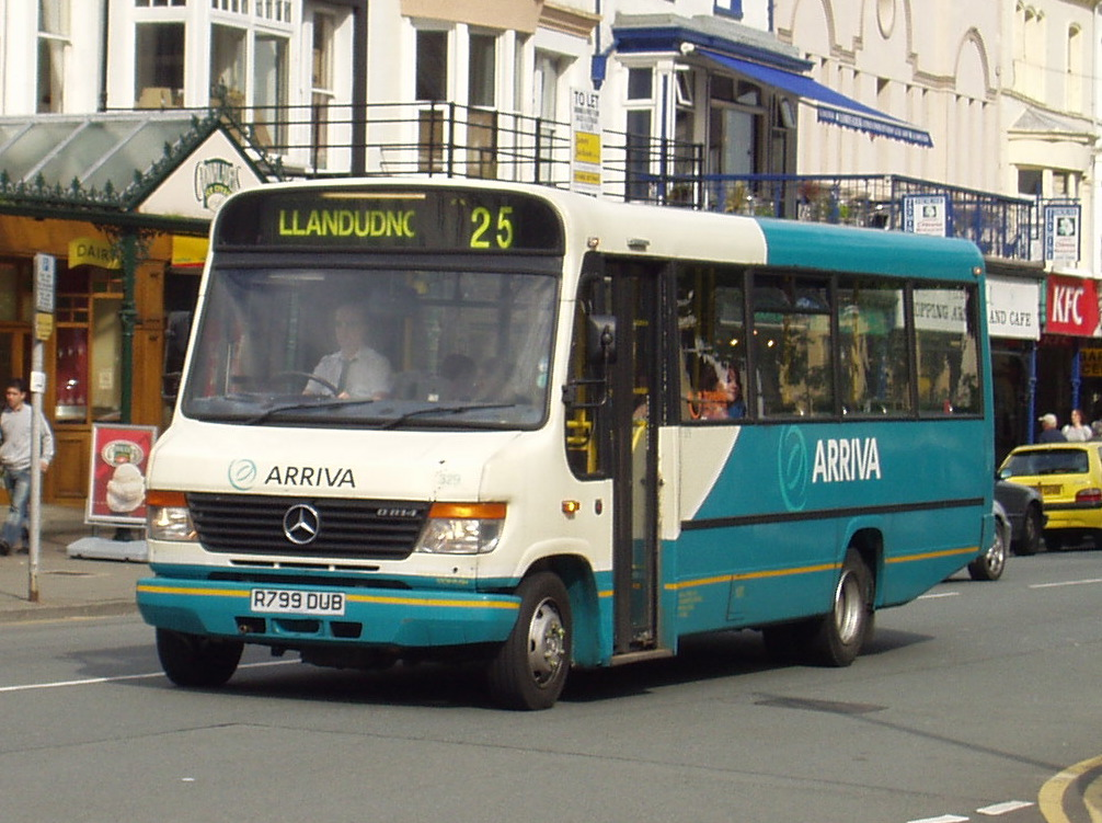 Arriva North West and Wales 329, a Mercedes-Benz Vario O814 with Plaxton Beaver 2 bodywork, pictured in Llandudno.